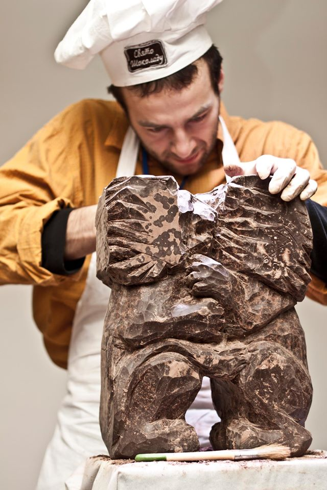 Скульптор відтворює із шоколаду фігури левів